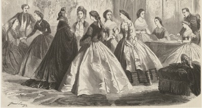 Skirts are longer at back. Wide pagoda sleeves. Natural waistline